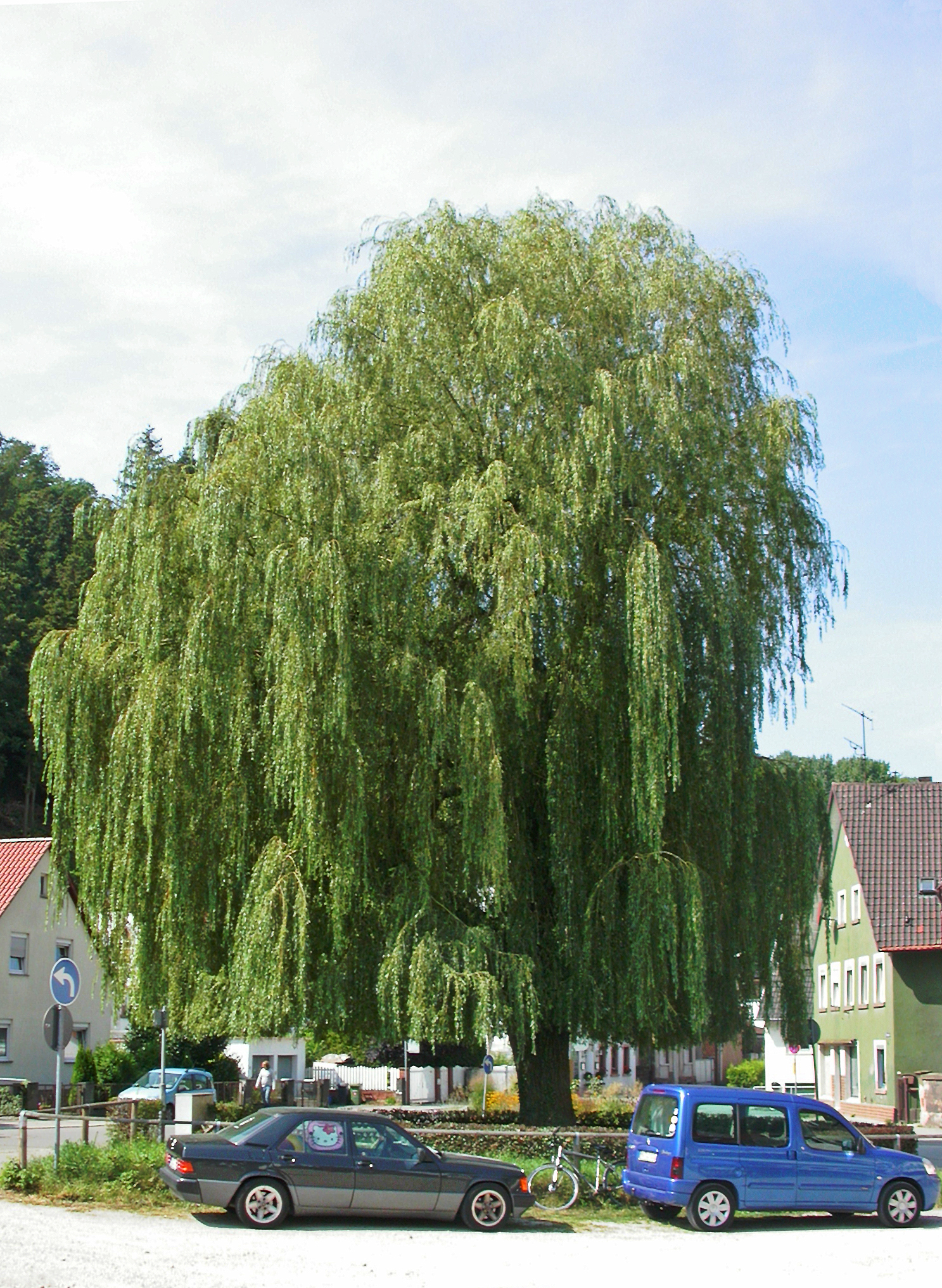 Weeping Willow - Salix × sepulcralis 'Chrysocoma' (syn. Salix alba 'Tristis') at Weinheim, Germany